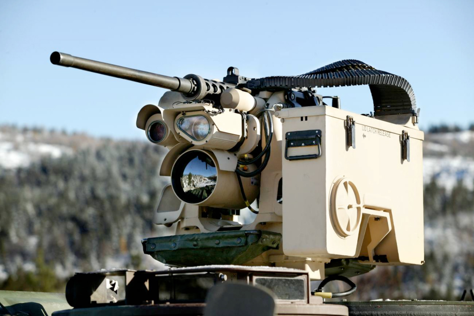 Capable of being mounted on a variety of vehicles, the XM153 Common Remotely Operated Weapon Station provides the capability to remotely aim and fire a suite of crew-served weapons from either a stationary platform or while on the move, using the system power of the host vehicle.